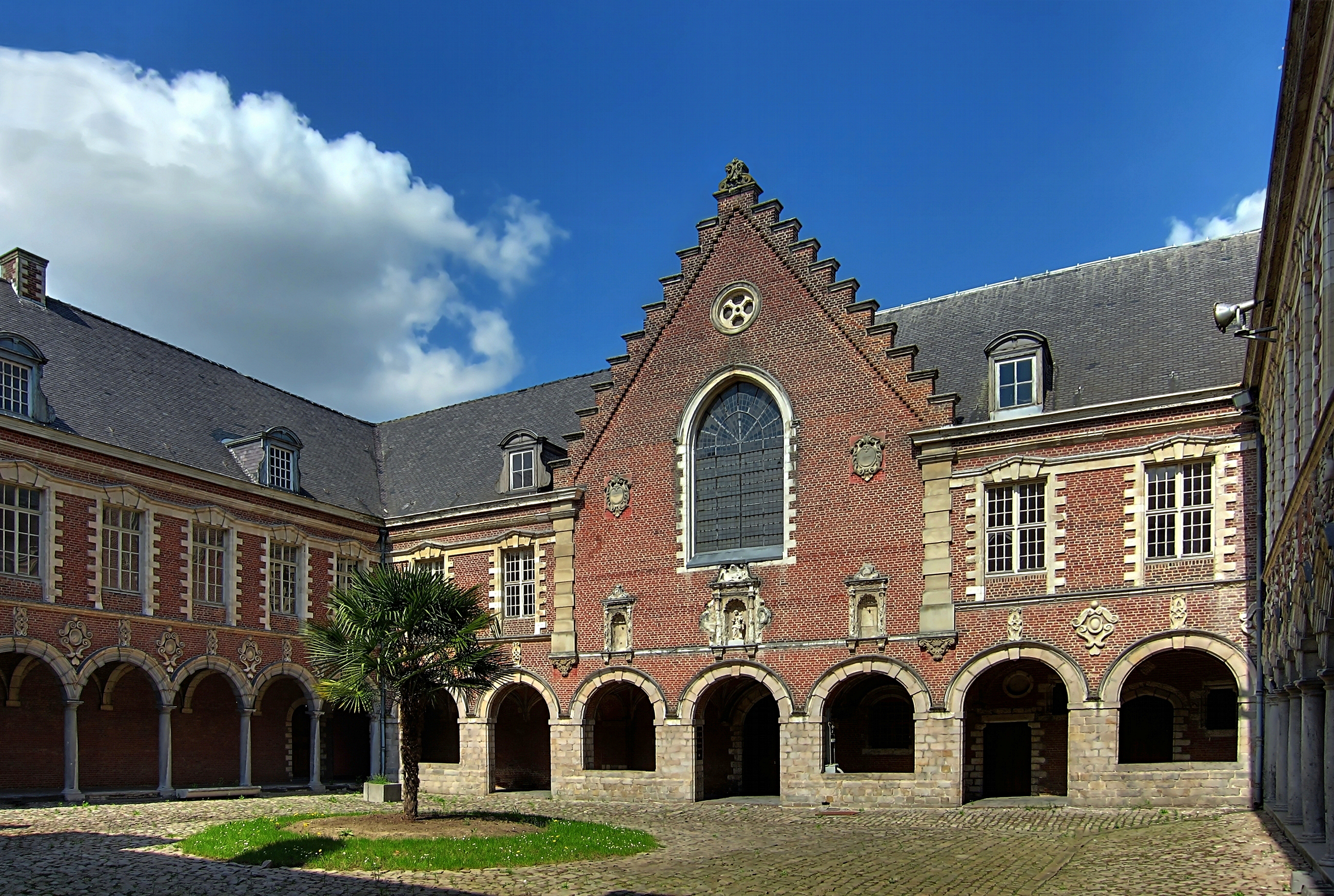 Cloister of Marguerite de Flandre hospital in Seclin, France.